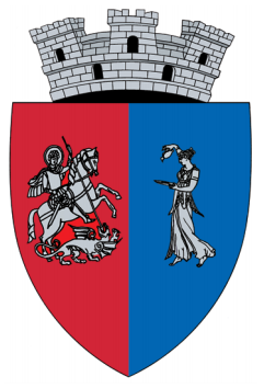 Coat of Arms of the town of Sângeorz-Băi, Bistriţa-Năsăud County, Romania